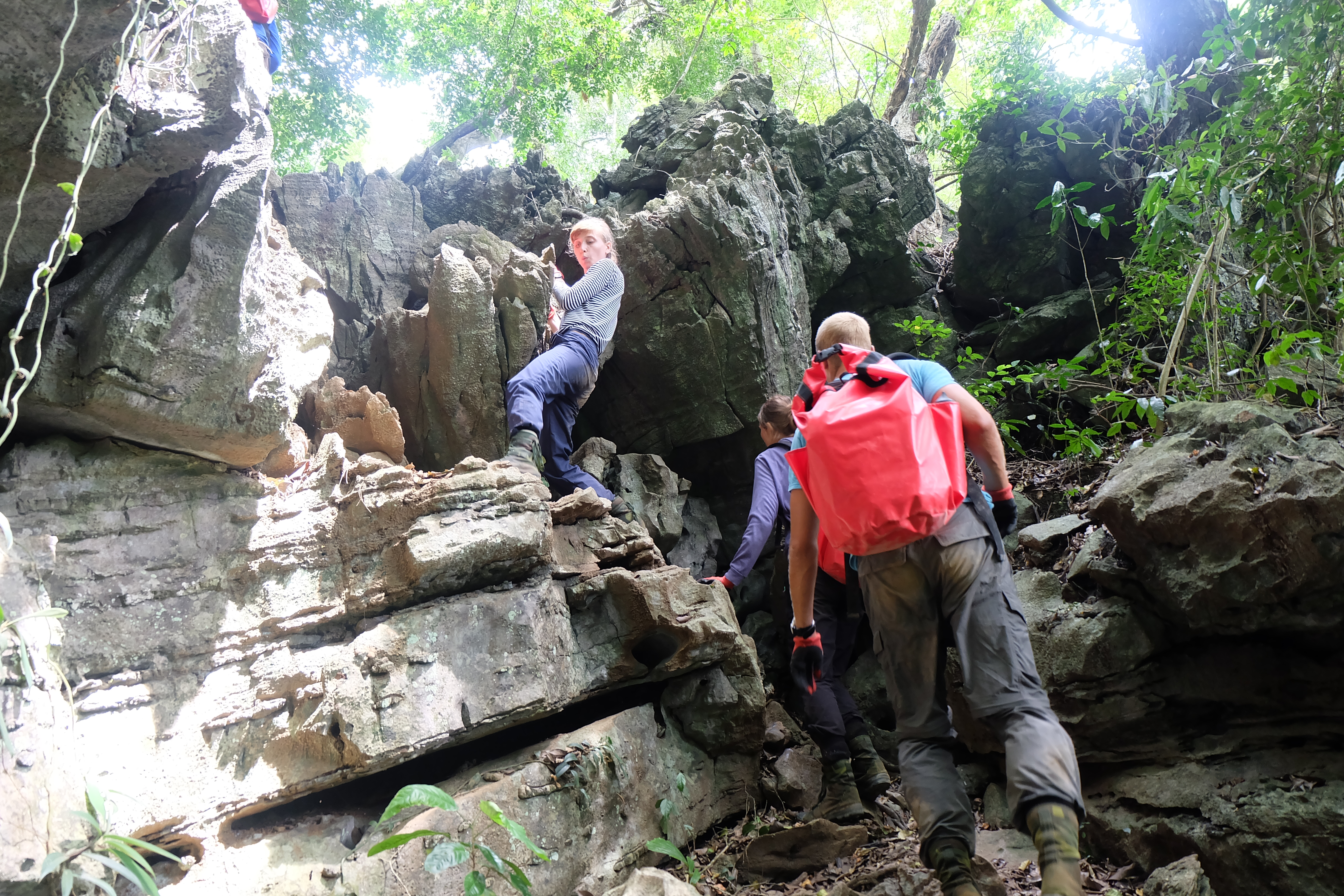 The adventure accelerates with a 30 m climb up a rocky hill to a small jungle opening where you can catch your breath before a 100 m descent in elevation down to Hung Ton Valley.